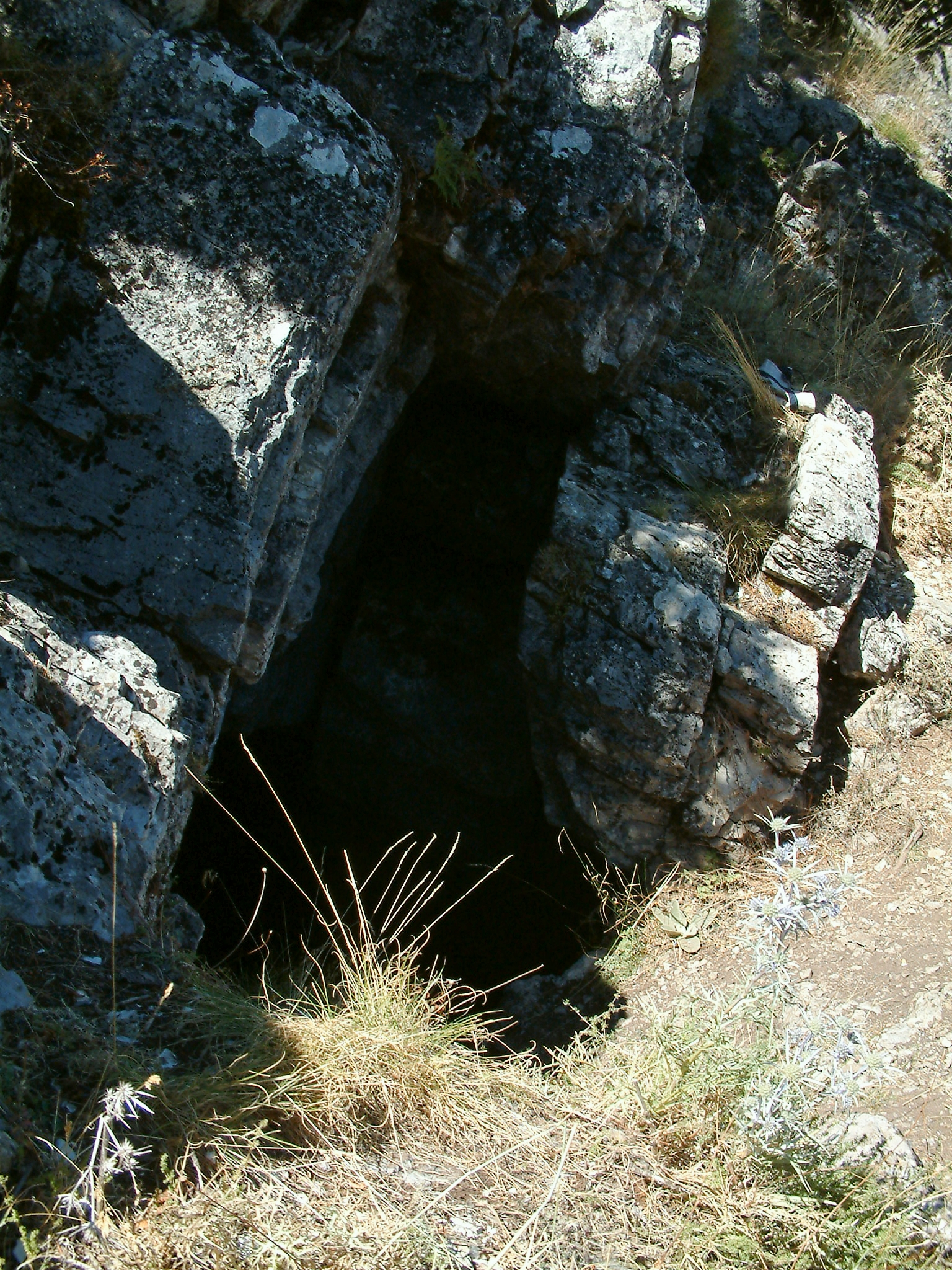 Cave of Kyllini, entrance. Cave of Hermes birth. The cave is visible only when the person stands in front of her.